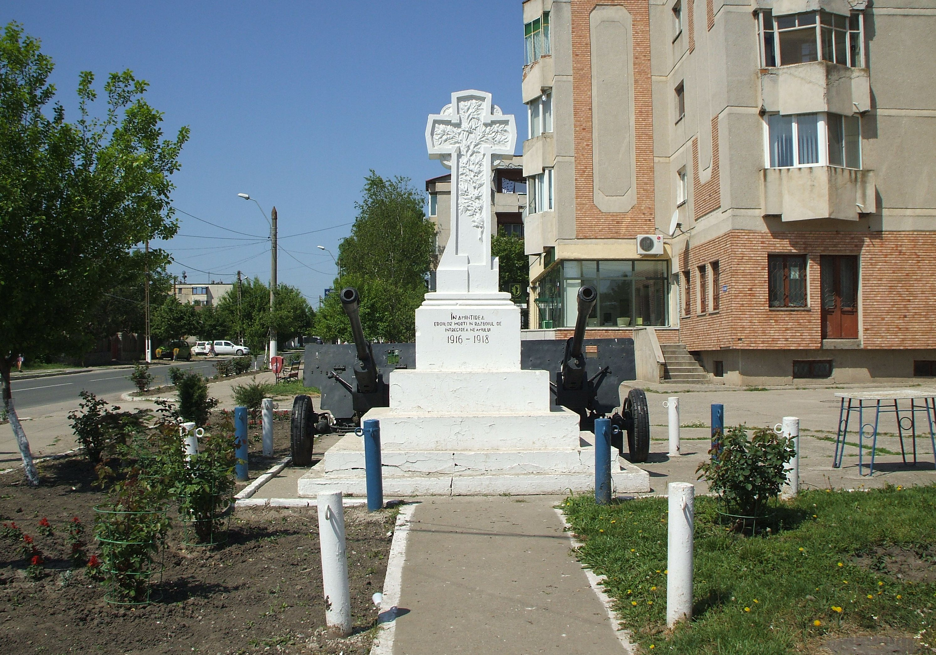 Negru Vodă WW1 war memorial.